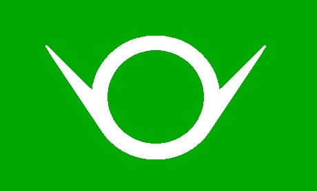 Flag of Tamamura Gunma